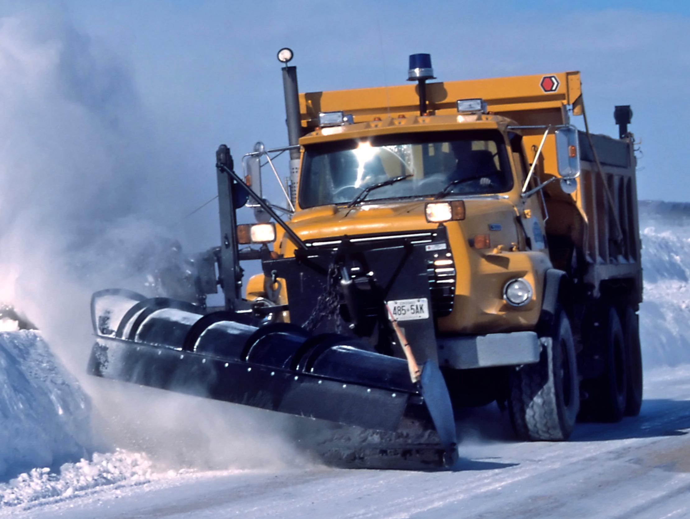 Ford LTS dump truck with snowplow near Toronto, Canada